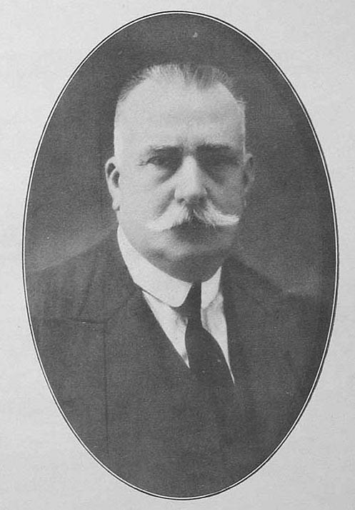 Portrait of Juan Mignaburu, president of dissident body "Asociación Amateurs de Football" in 1919.